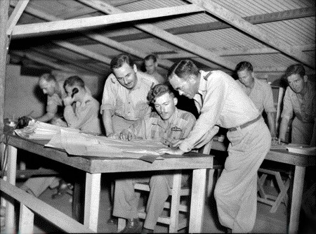 Vivigani, Goodenough Island, Papua. c. 1943-10. In the Operations Room of the Fighter Sector, No. 71 Wing RAAF. From left: 276836 Flying Officer (FO) H. Devon, Goondiwindi, Qld (at telephone); 256116 Flight Lieutenant R. D. Kennedy, Kew, Vic; 654 Squadron Leader J. Lower, Aldgate, SA; 265862 FO J. G. Nicholas, Mosman, NSW.